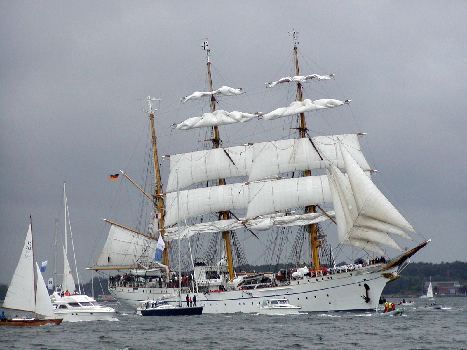 German Barque Gorch Fock at Kiel Week 2004